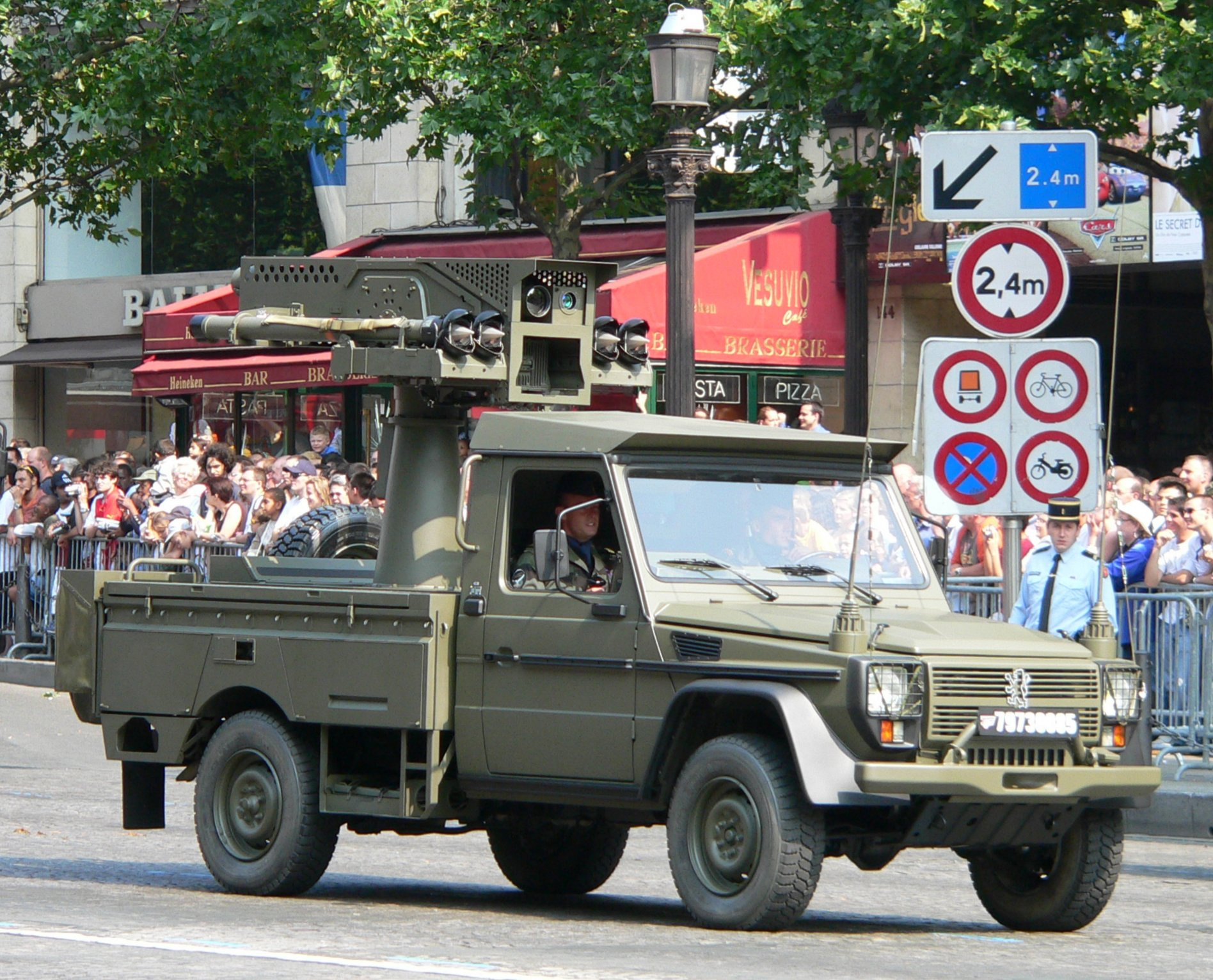 Mistral missile in Aspic mounting on a Peugeot P4 vehicle